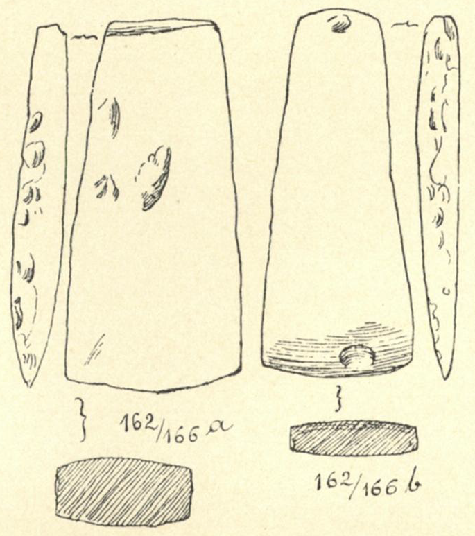 Flint axes from the destroyed megalithic tombs at Ristedt